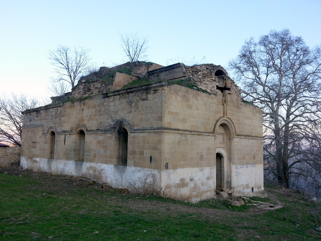 Saqiyan Monastery in Saqiyan, Shamakhy